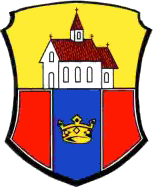 Coat of Arms of Stollberg.